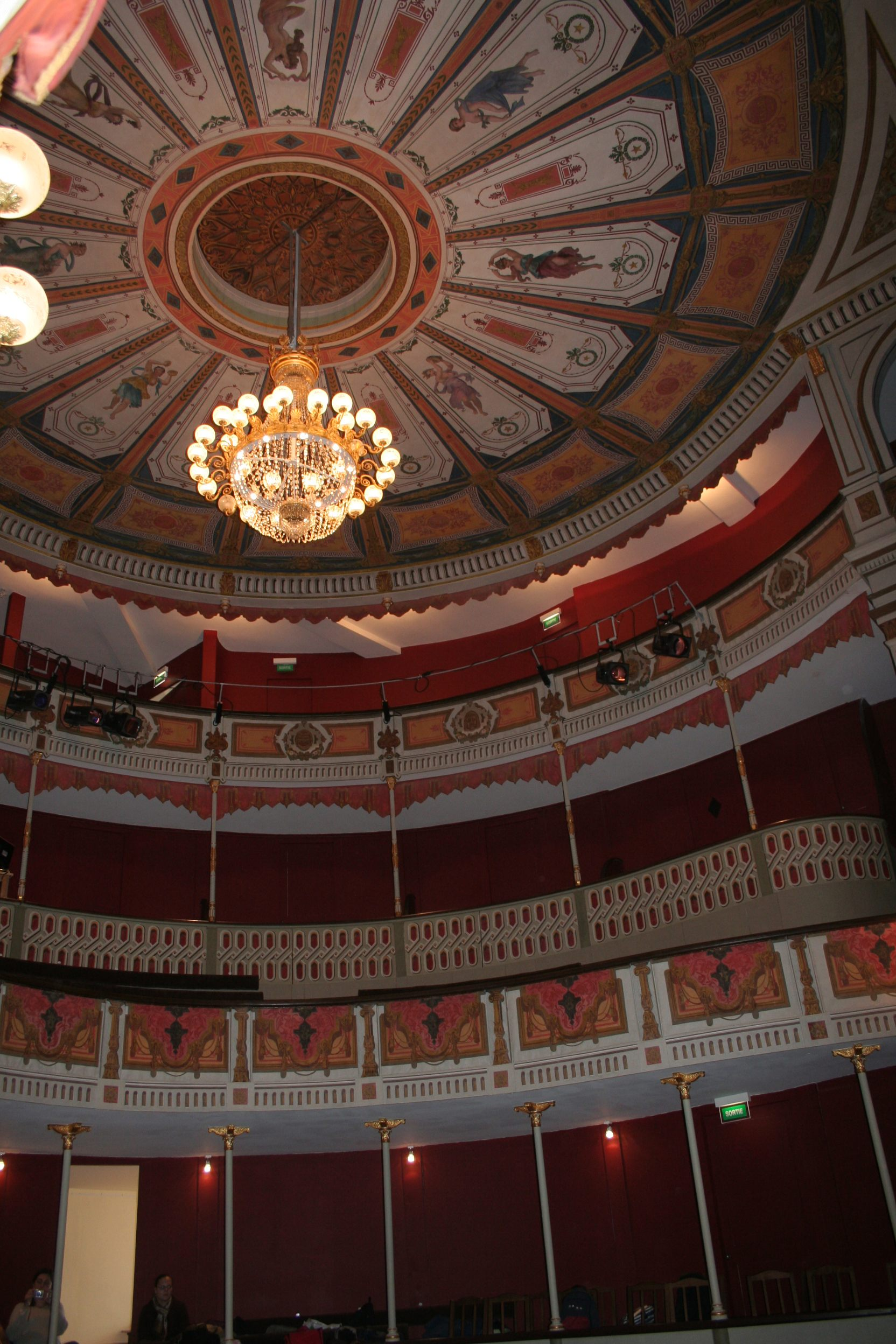 Gray theather